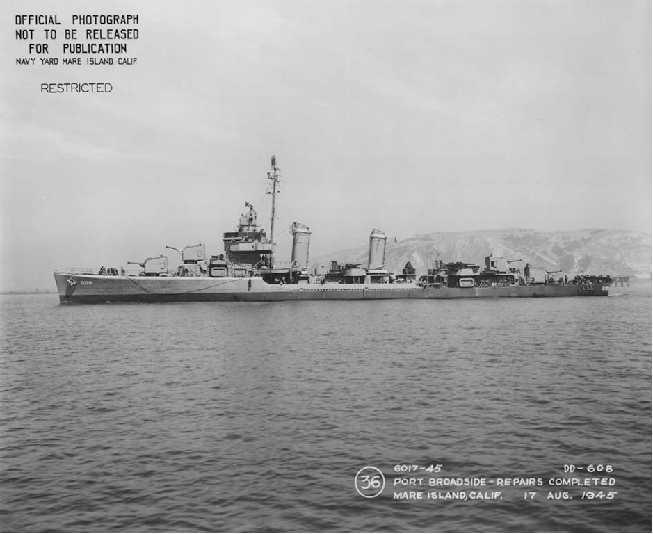 The U.S. Navy destroyer USS Gansevoort (DD-608) off the Mare Island Naval Shipyard, California (USA) in 17 August 1945, following the completion of repairs.